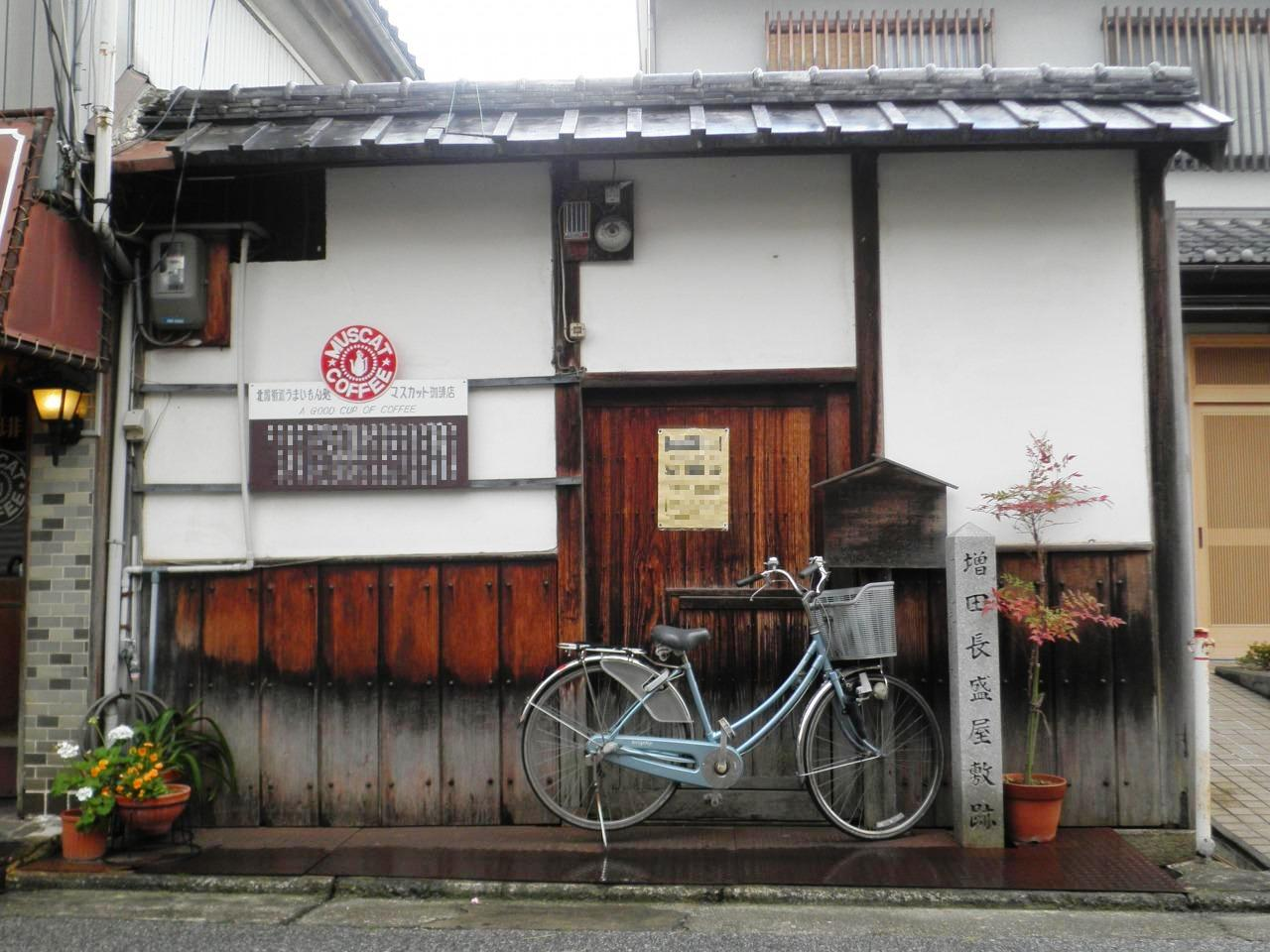 Site of Mashita Nagamori's residence in Nagahama, Shiga.